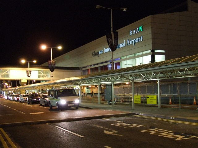 Glasgow International Airport, Glasgow.